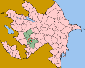 Map of Azerbaijan showing Khankendi (Xankəndi) sahar. It is the capital of the self-proclaimed Nagorno-Karabakh Republic, and is named Stepanakert by the local population.